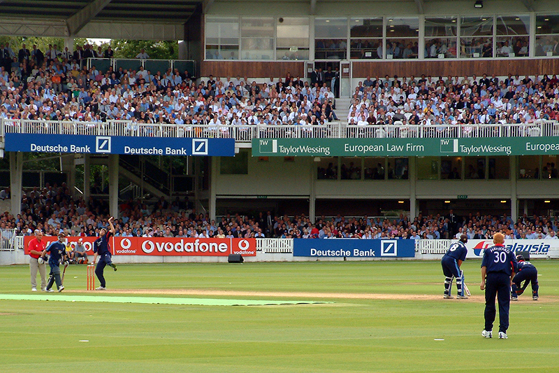 Middlesex play a game of Twenty20 cricket against Surrey at Lords